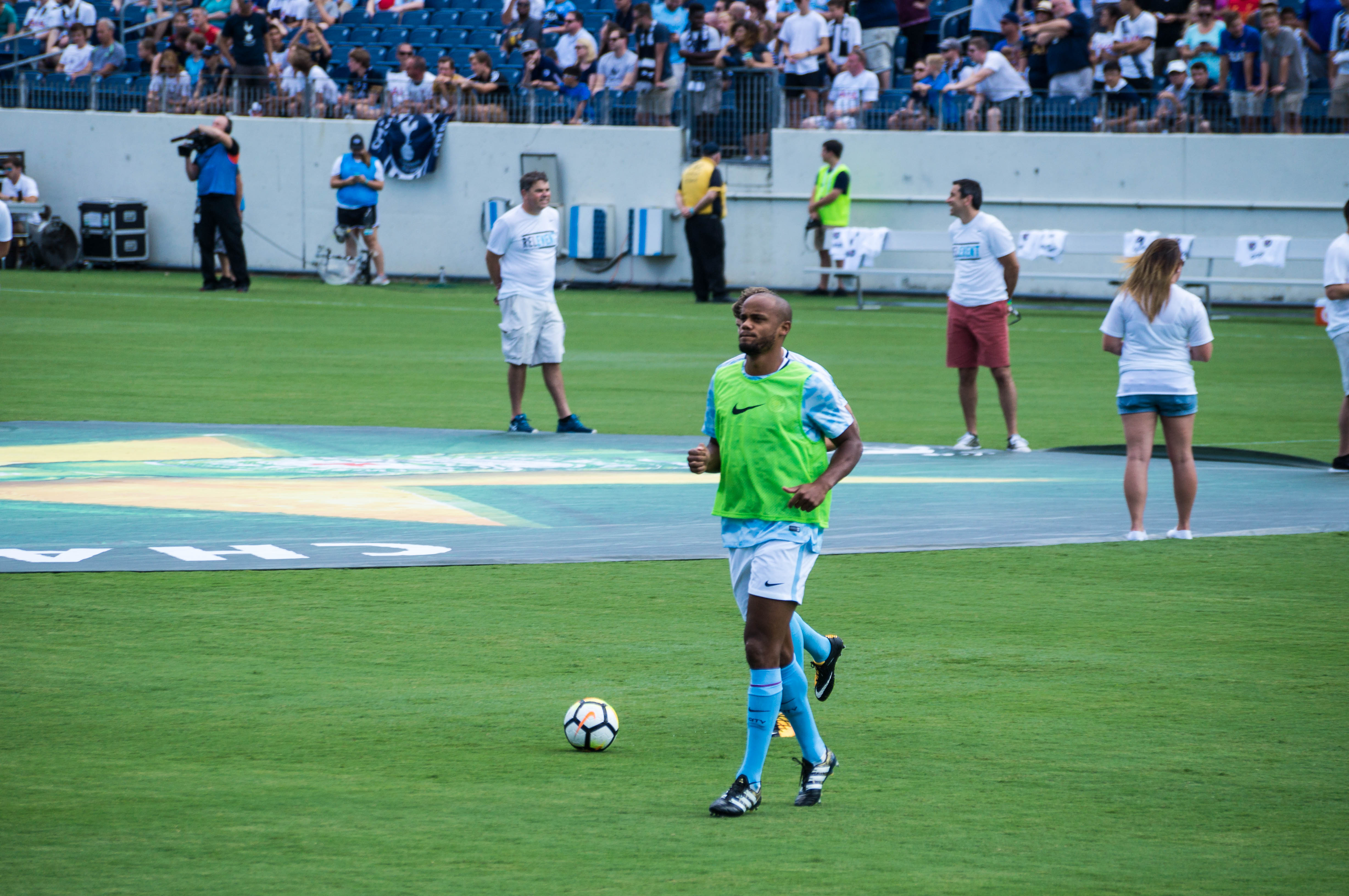 Manchester City vs Tottenham Hotspur at Nissan Stadium in Nashville, TN